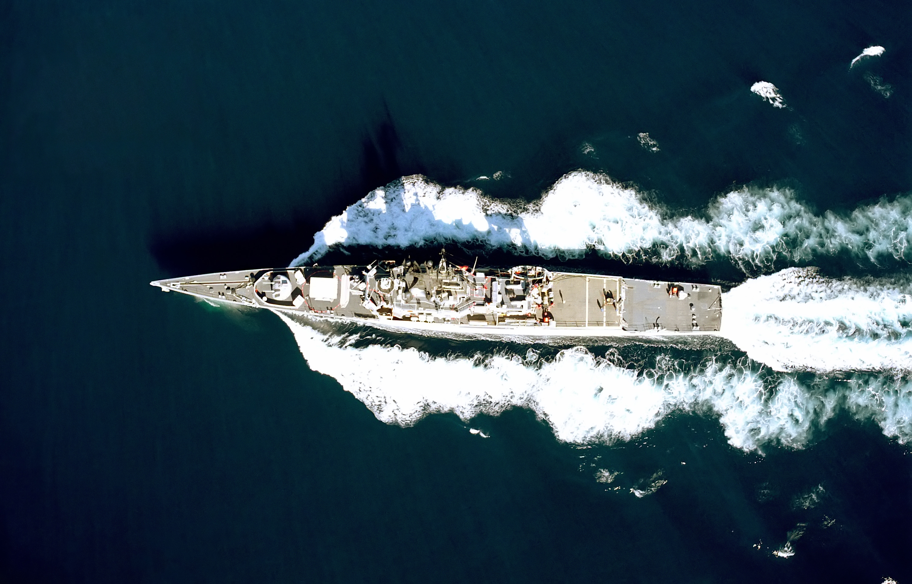 An overhead view of the frigate USS BRONSTEIN (FF 1037) underway off the coast of Southern California.